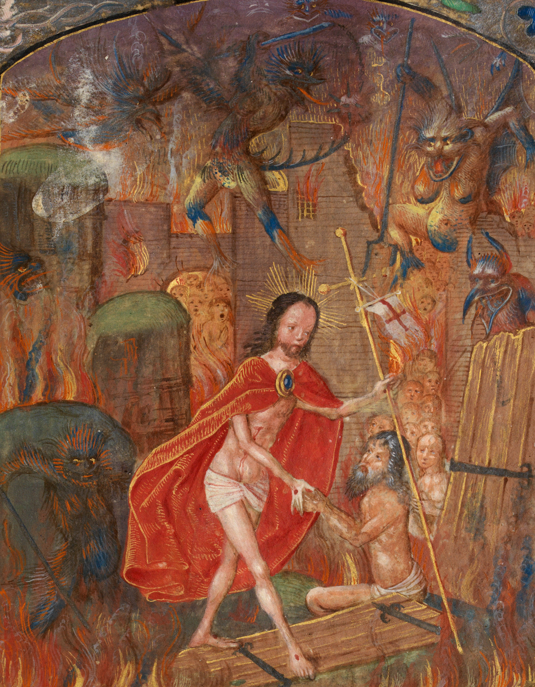 Christ leads Adam by the hand. On scroll in border, the motto 'Entre tenir Dieu le viuelle'